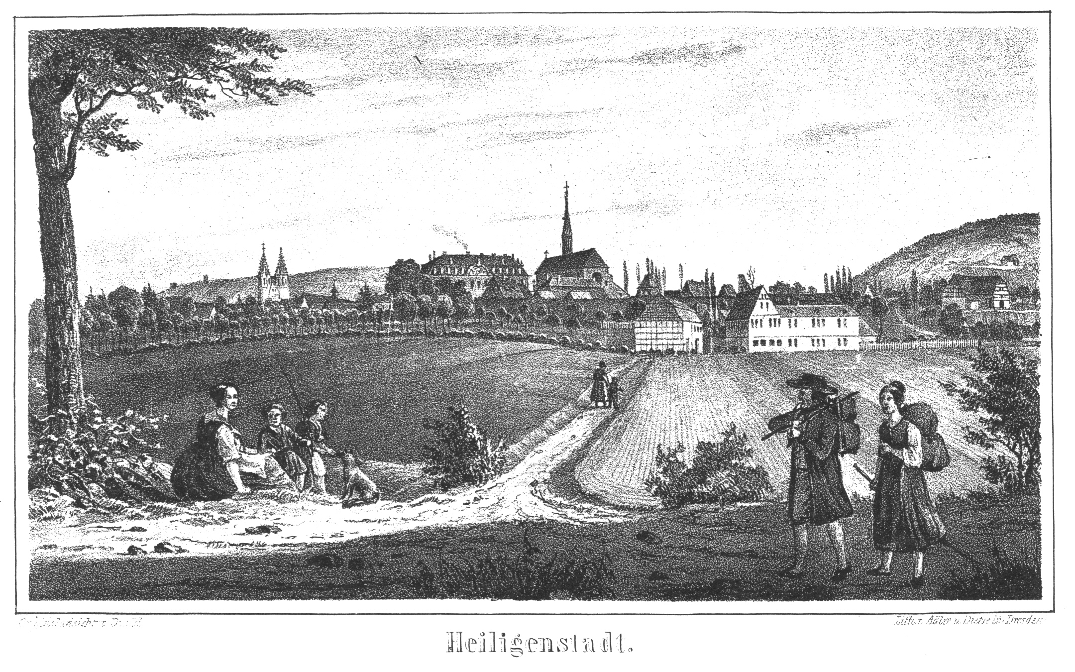 Heiligenstadt - Original by Carl Duval.